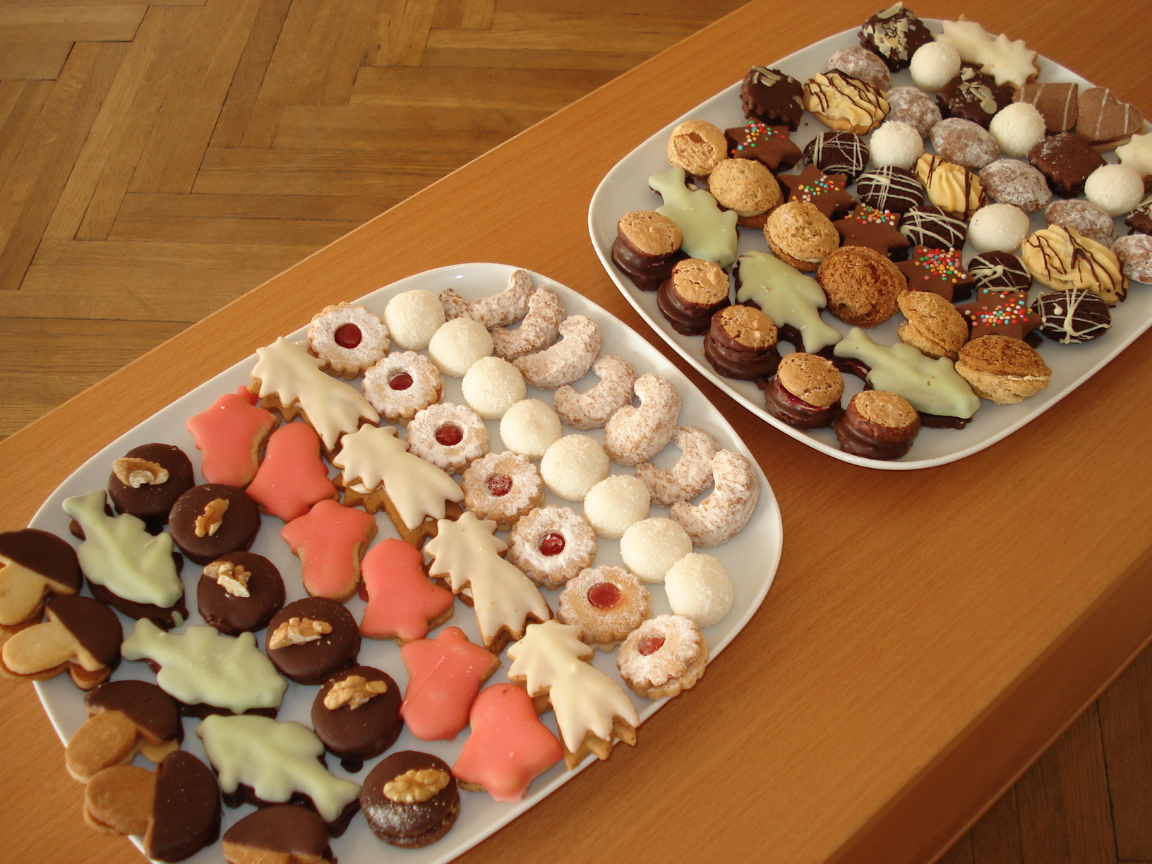 Christmas cookies in Czech republic.